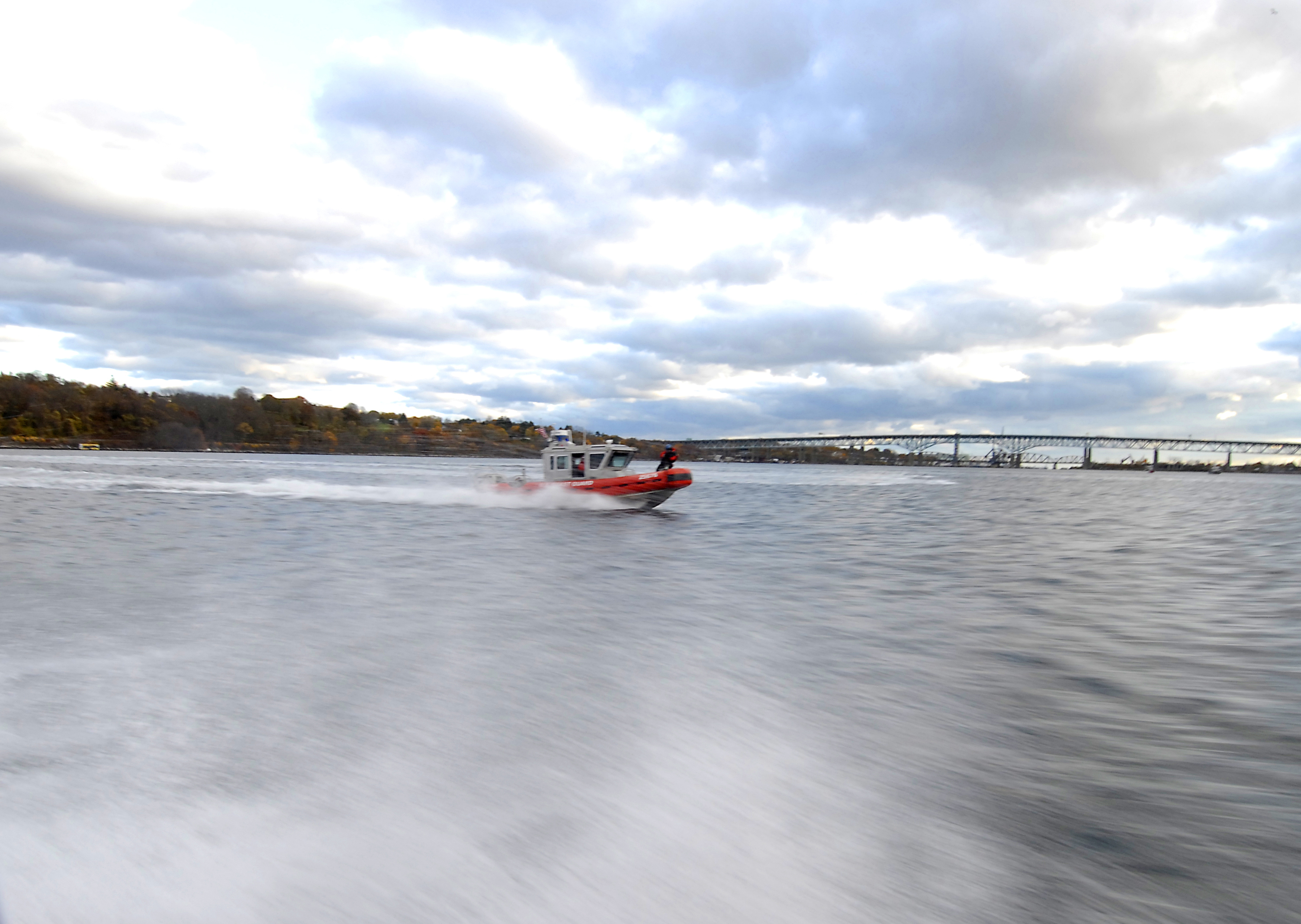 A 25-foot response boat crew participates in a tactical coxswain training course on the Thames River in New London, Conn., Nov. 16, 2007.Tactical coxswain instructors from the Coast Guard Special Missions Training Center (SMTC) in Camp Lejeune, N.C.,trained coxswain and boat crew members from Stations New Haven, Montauk, Eatons Neck, New London, the New York Fire Department and the New York and East Hampton Police Departments during a three day training period in direct support of submarine and ferry escort missions that are routinely conducted in the Long Island Sound area.U.S. Coast Guard photo by PA3 Annie R. Berlin